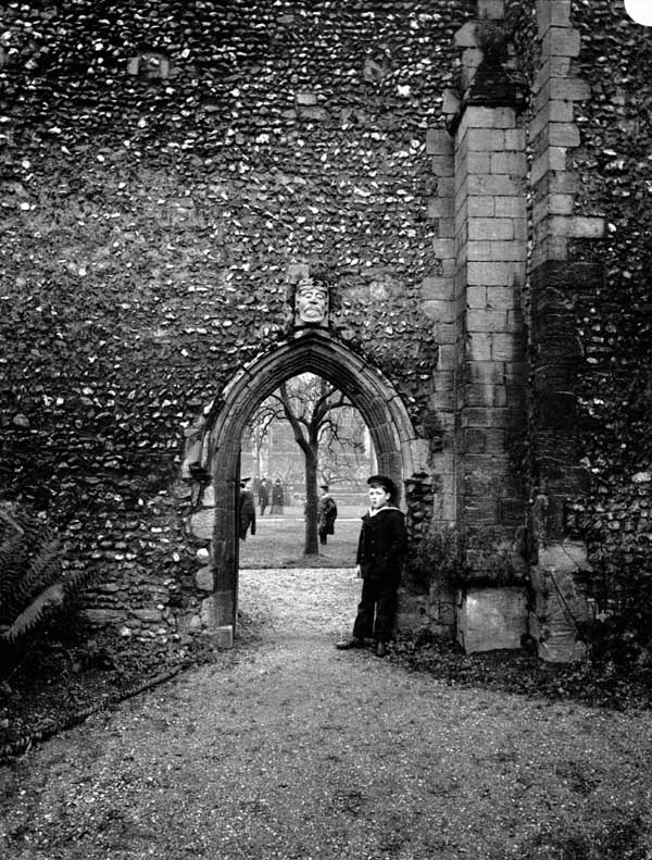 Gate of abbey at Bury St Edmunds, Suffolk, showing small boy in doorway beneath medieval mask. Courtesy of the Spanton Jarman collection, Bury St Edmunds Past and Present Society, Bury St Edmunds, Suffolk, England